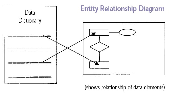 Entity relationship (ER) diagram A design tool that graphically expresses the database’s overall logical structure by representing data entities, their cardinality relationships (e.g., one-to-one, one-to-many, etc.), and the linkages that connect them. The construction of an ER diagram is essential for the design of database tables, extracts, and metadata (see definition of metadata). ER diagrams are especially important in designing and developing data documentation and tables that represent data relationships (see data/process flow diagram and data structure diagram).